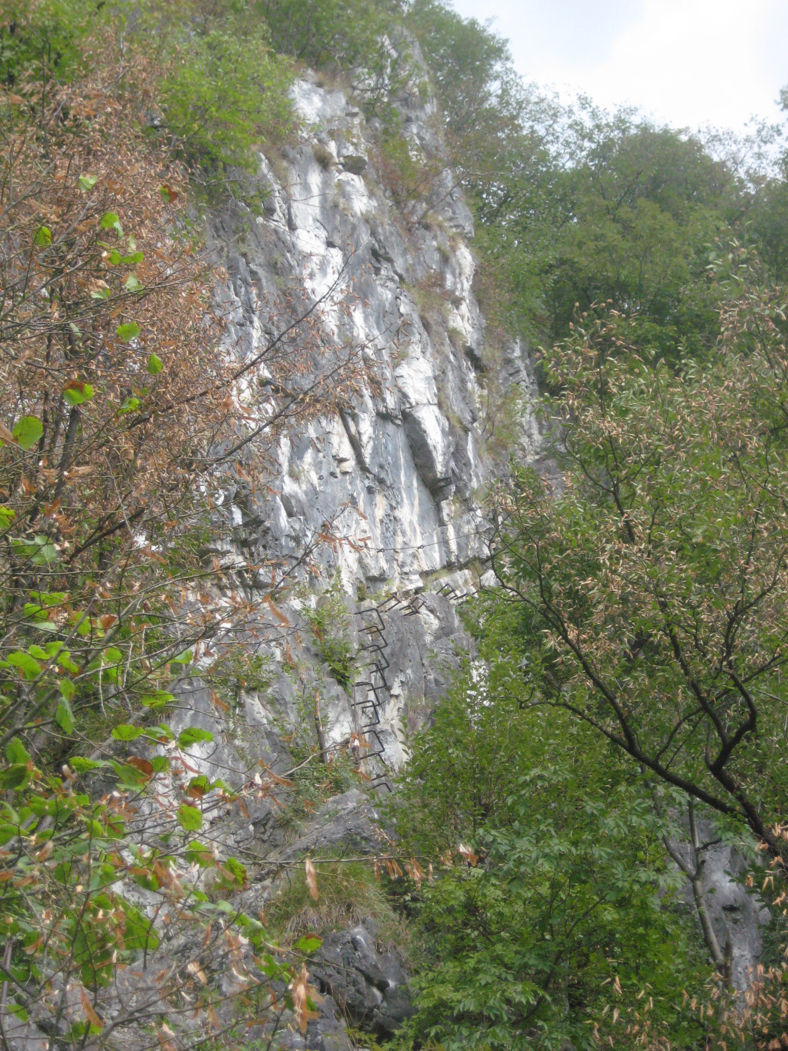 Turnc, a path to Grmada and Šmarna gora, hill near Ljubljana